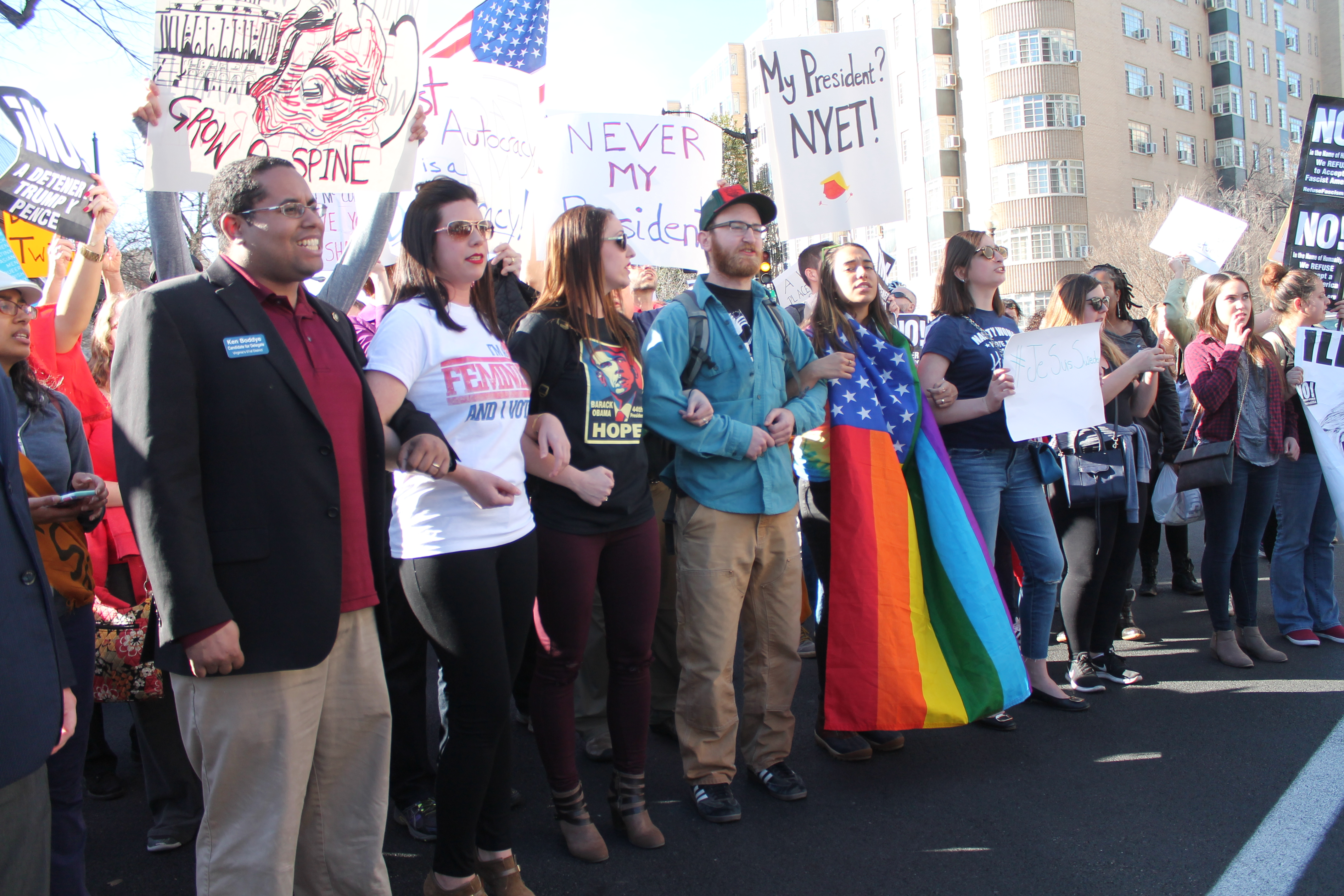 NOT MY PRESIDENT DAY MARCH en route to the White House on Massachusetts Avenue at 17th Street, NW, Washington DC on Monday afternoon, 20 February 2017 by Elvert Barnes Protest Photography KEN A. BODDYE Follow 20 February 2017 Washington DC NOT MY PRESIDENT DAY at F20 NMPD 2017 DC docu-project